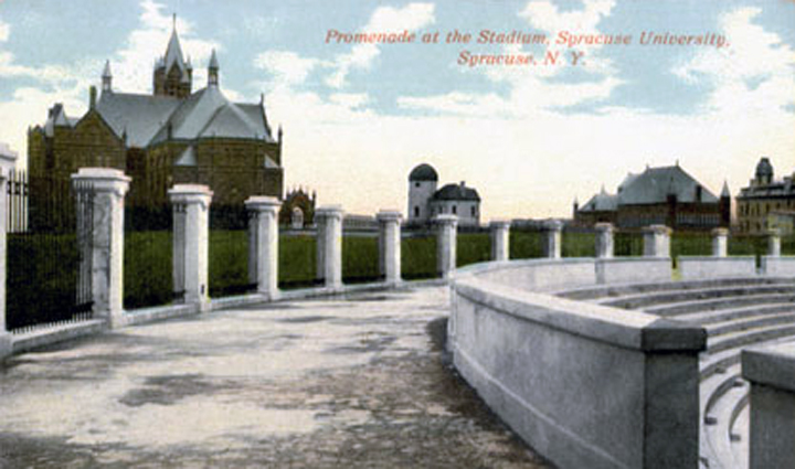 Syracuse University - Archbold Stadium - Promenade